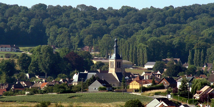 Overview of the town